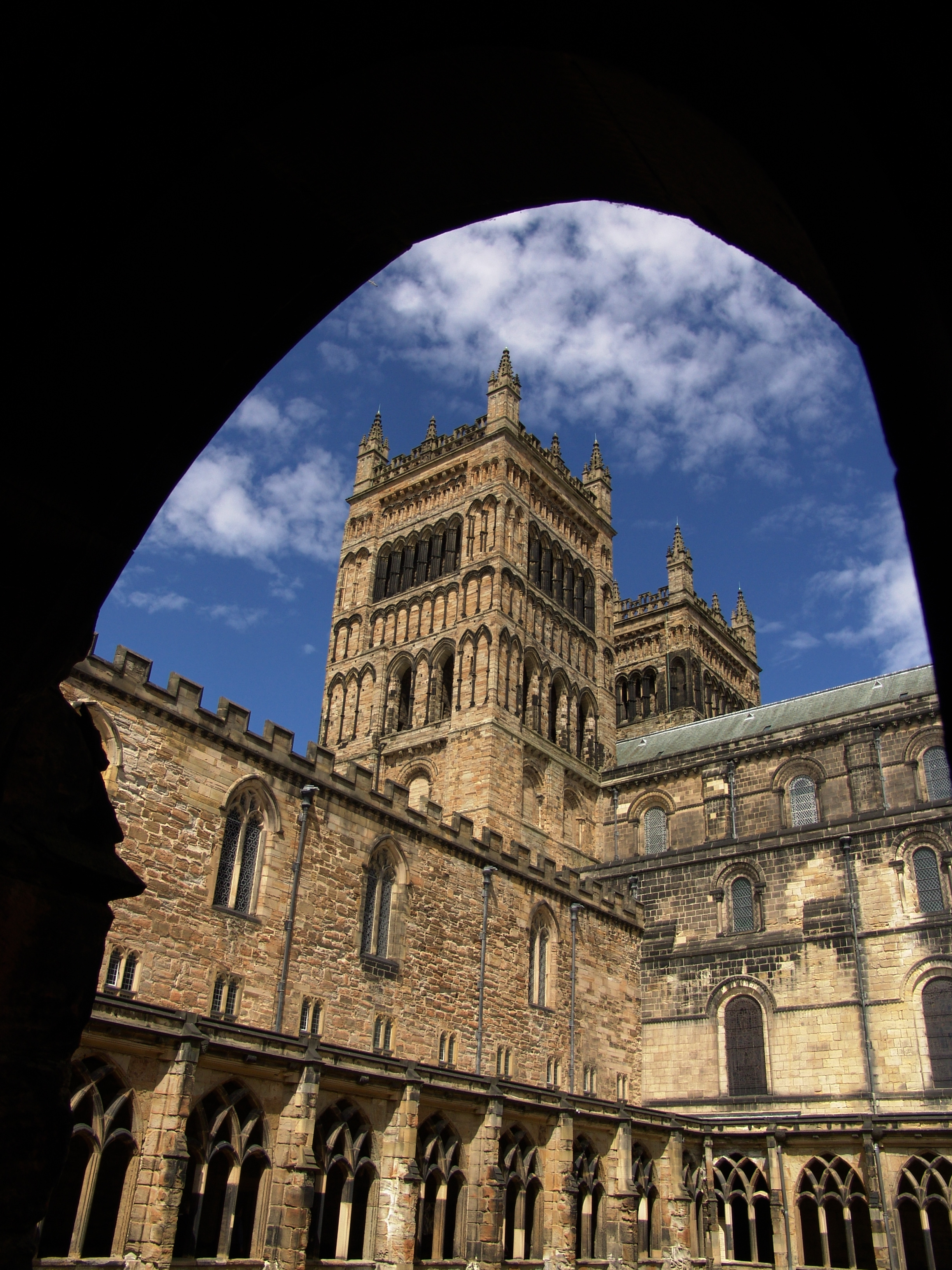 Durham Cathedral cloisters